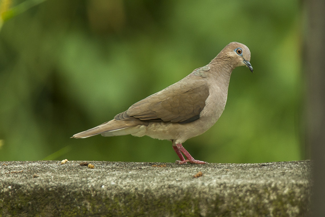 White-tipped Dove - Panama _H8O8470